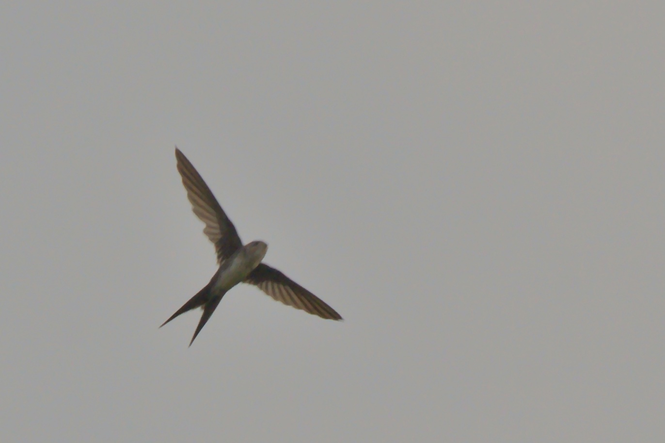 Fork-tailed Palm-Swift flying and showing the forked tail at Comunidad Mituseño Urania near Mitú, Vaupés